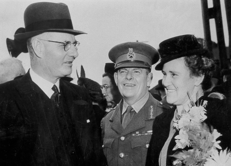 Australian Prime Minister John Curtin and wife Elsie at the launch of HMAS Fremantle, 1942.